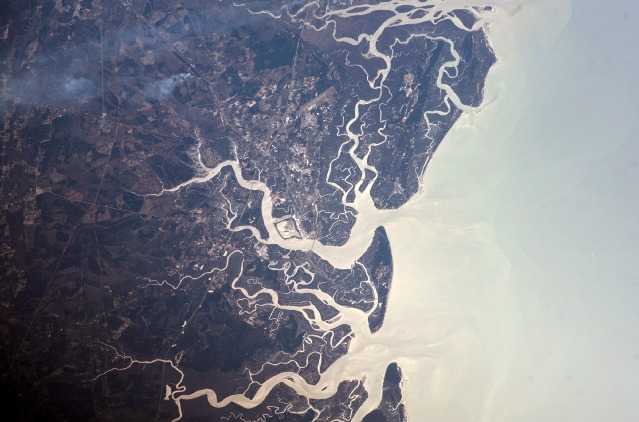 Brunswick, Georgia from space